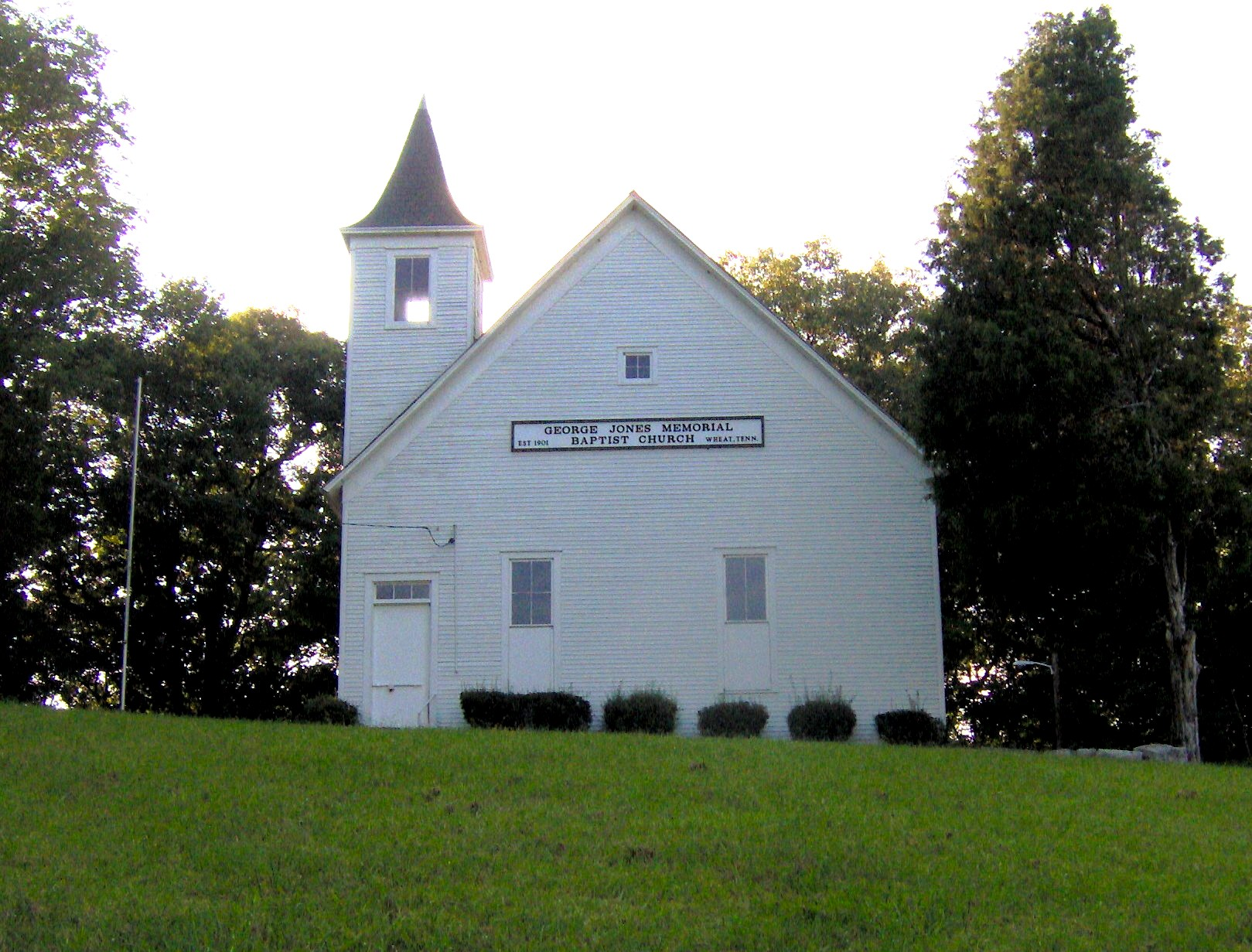 The George Jones Memorial Baptist Church, built in 1901 by the residents of the now-defunct community of Wheat, Tennessee, in the southeastern United States. Wheat was one of the communities displaced in the 1940s when the U.S. government initiated construction of Oak Ridge as part of the Manhattan Project.